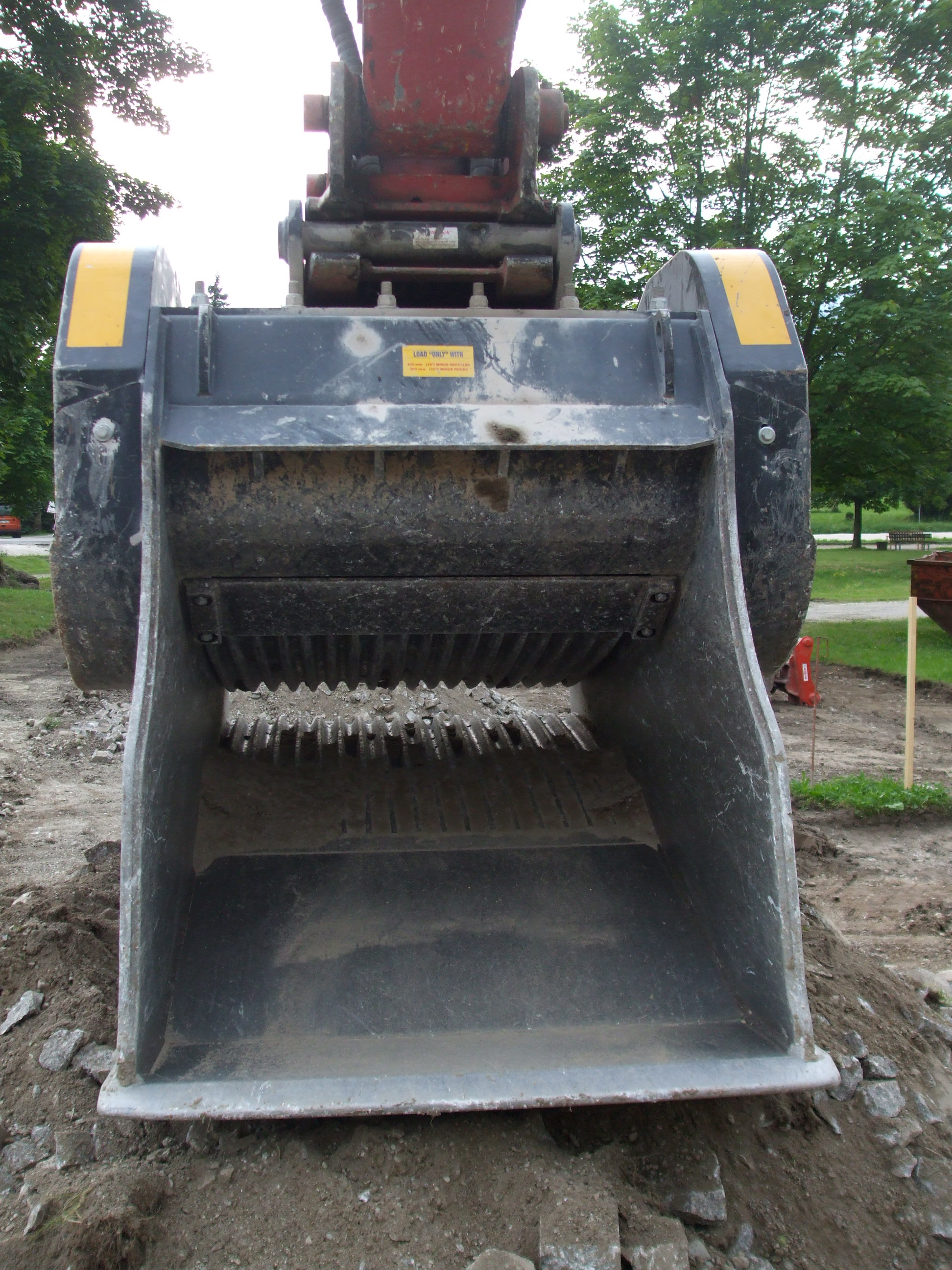 chrusher inside